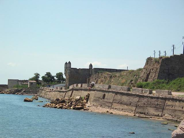 Photo of the Yenikale fortess in Kerch.